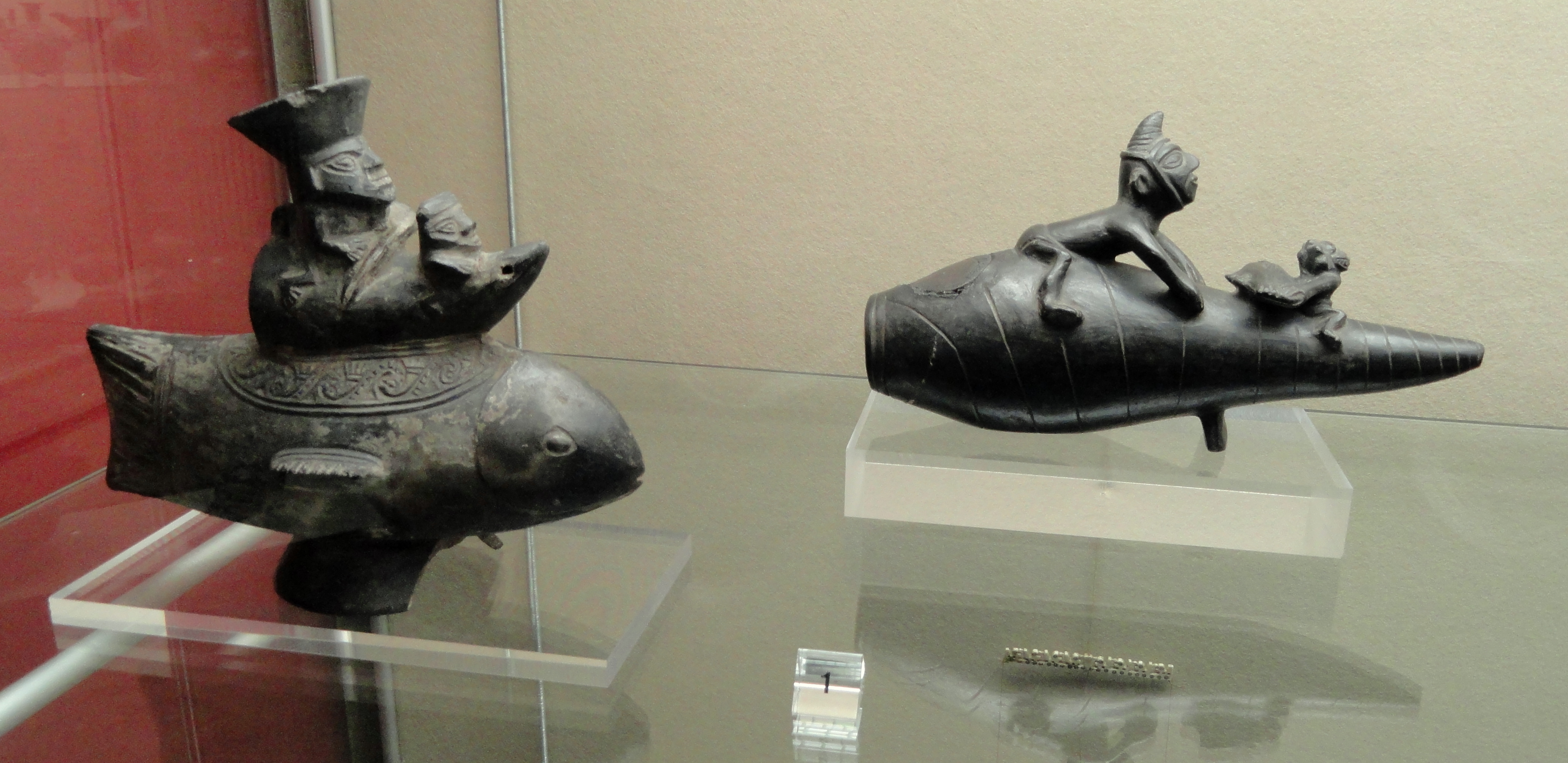 Exhibit from the Latin American collection of the Staatliches Museum für Völkerkunde München, Maximilianstraße 42, Munich, Germany. Pottery, Chimu, 1100-1450 AD, northern Peru.